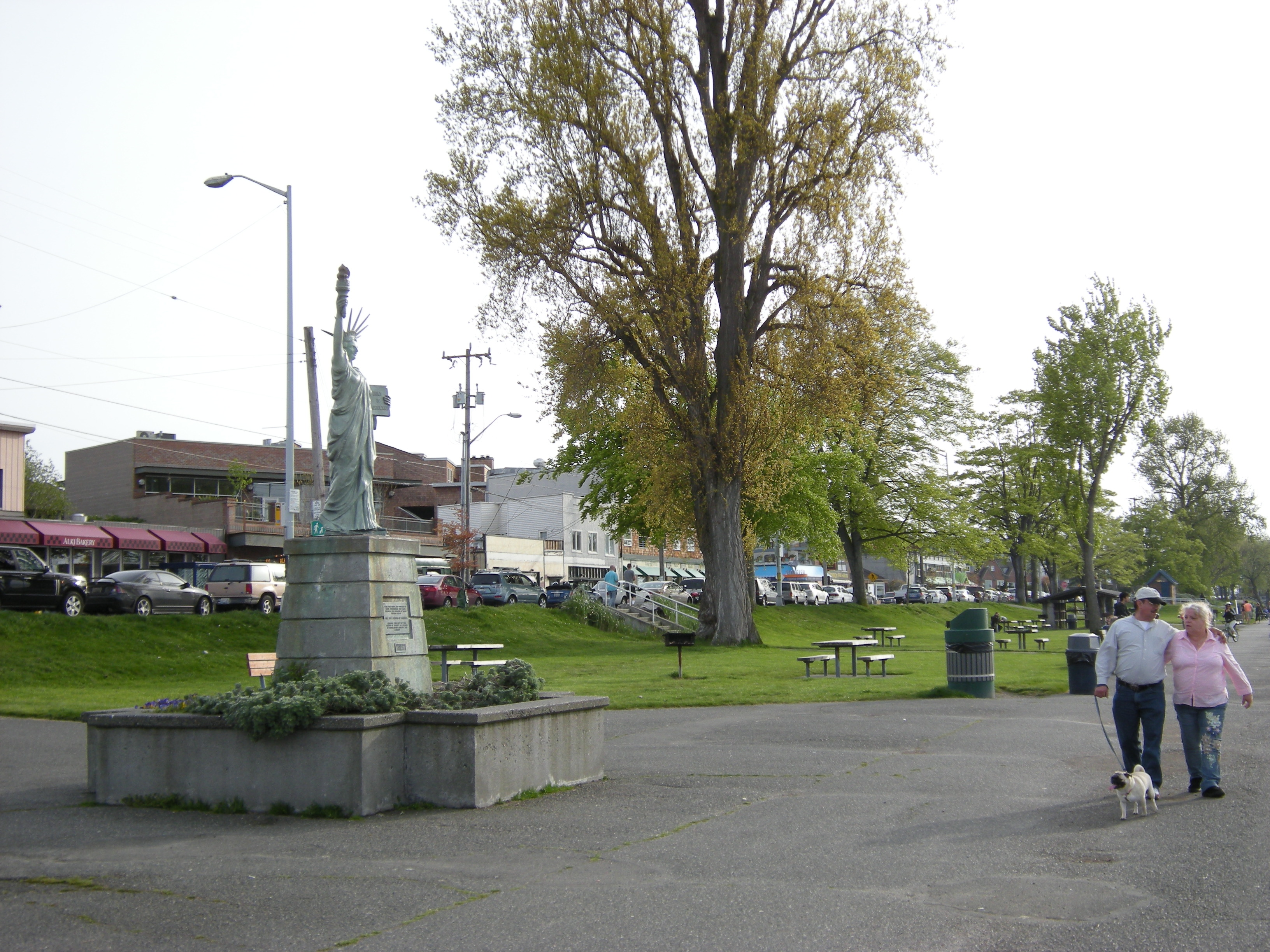 Small replica of the Statue of Liberty on Alki Beach, Seattle, Washington, U.S. near the site of the landing of the Denny Party, generally considered the founders of Seattle. The current statue, erected September 2007 is in bronze. It is a replica of a statue erected 1952 on this site; that one was plaster sheathed in copper.